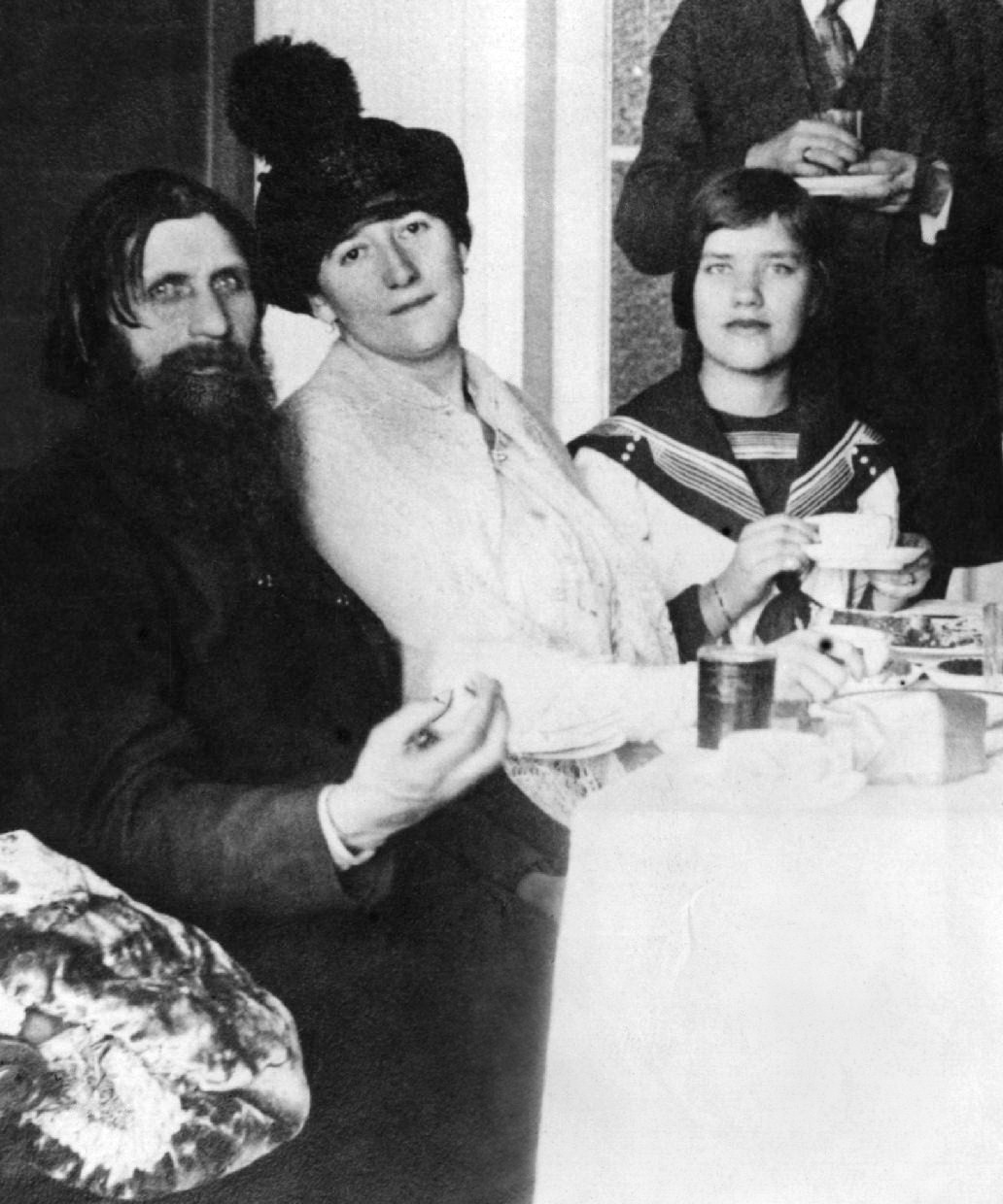 This photograph of Grigori Rasputin with his wife and his daughter Matryona (Maria), far right, in 1911 is cropped from a group photo that was taken in Rasputin's St. Petersburg apartment in 1911 and reproduced numerous times in the years thereafter. Because of its age, I think it's most likely in the public domain. I got it from a forum posting at